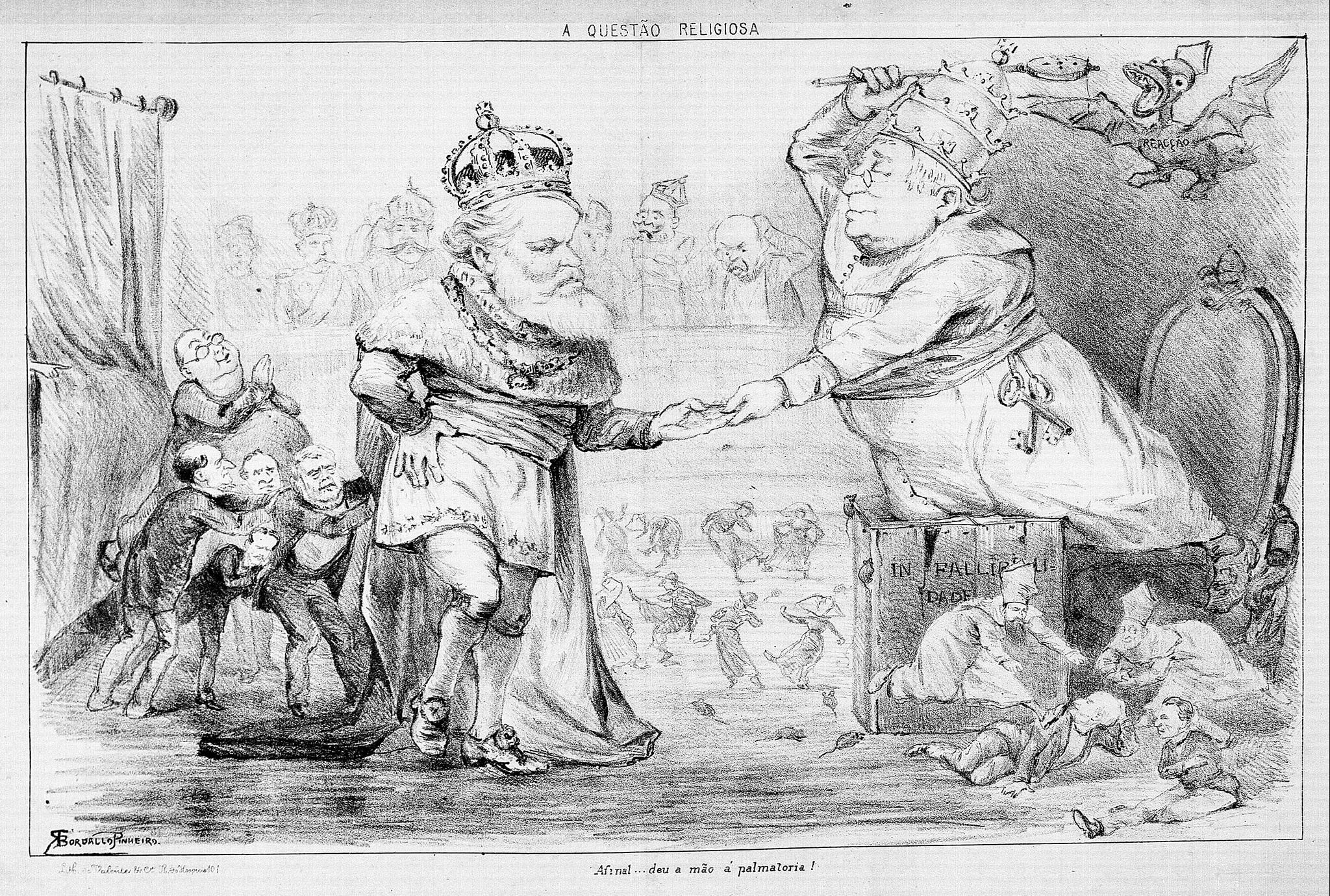 Satirical cartoon published in Brazil in 1875.